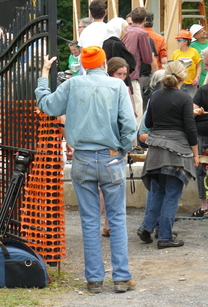 Pete Seeger looks on at the conclusion of a ceremony marking the raising of the new winter home port of the Sloop Clearwater in Kingston, New York, September 15, 2012.